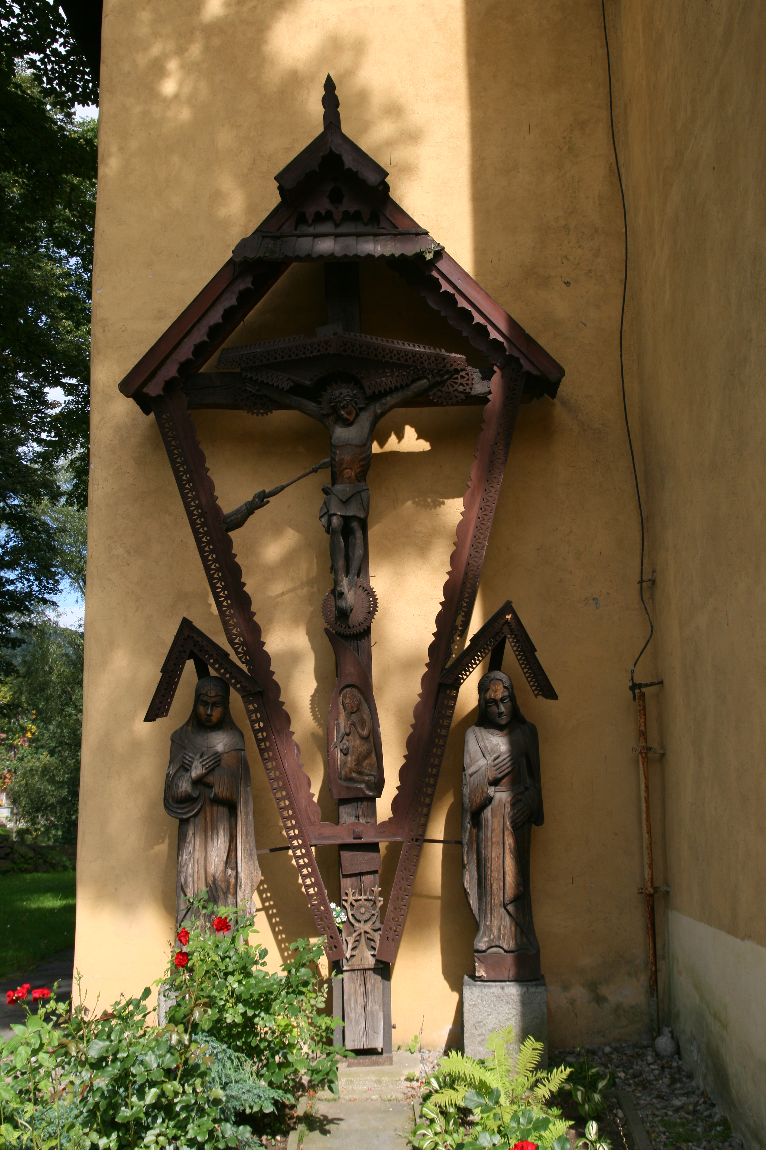 Fold sculpture "Passion" on the side of the All Saints Church in Krościenko nad Dunajcem (Poland).